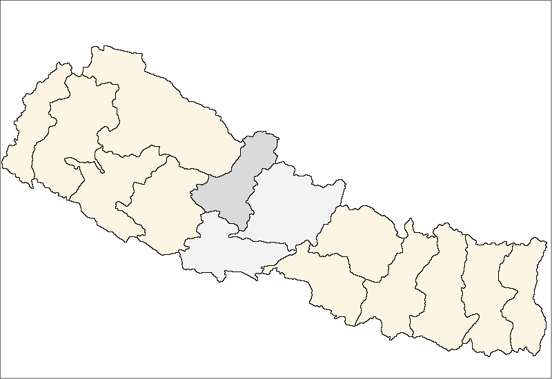 FrenchCarte de localisation de lazone de Dhawalagiri(wp-FR),au Népal (wp-FR).EnglishLocation map ofDhawalagiri Zone(wp-EN),in Nepal (wp-EN).